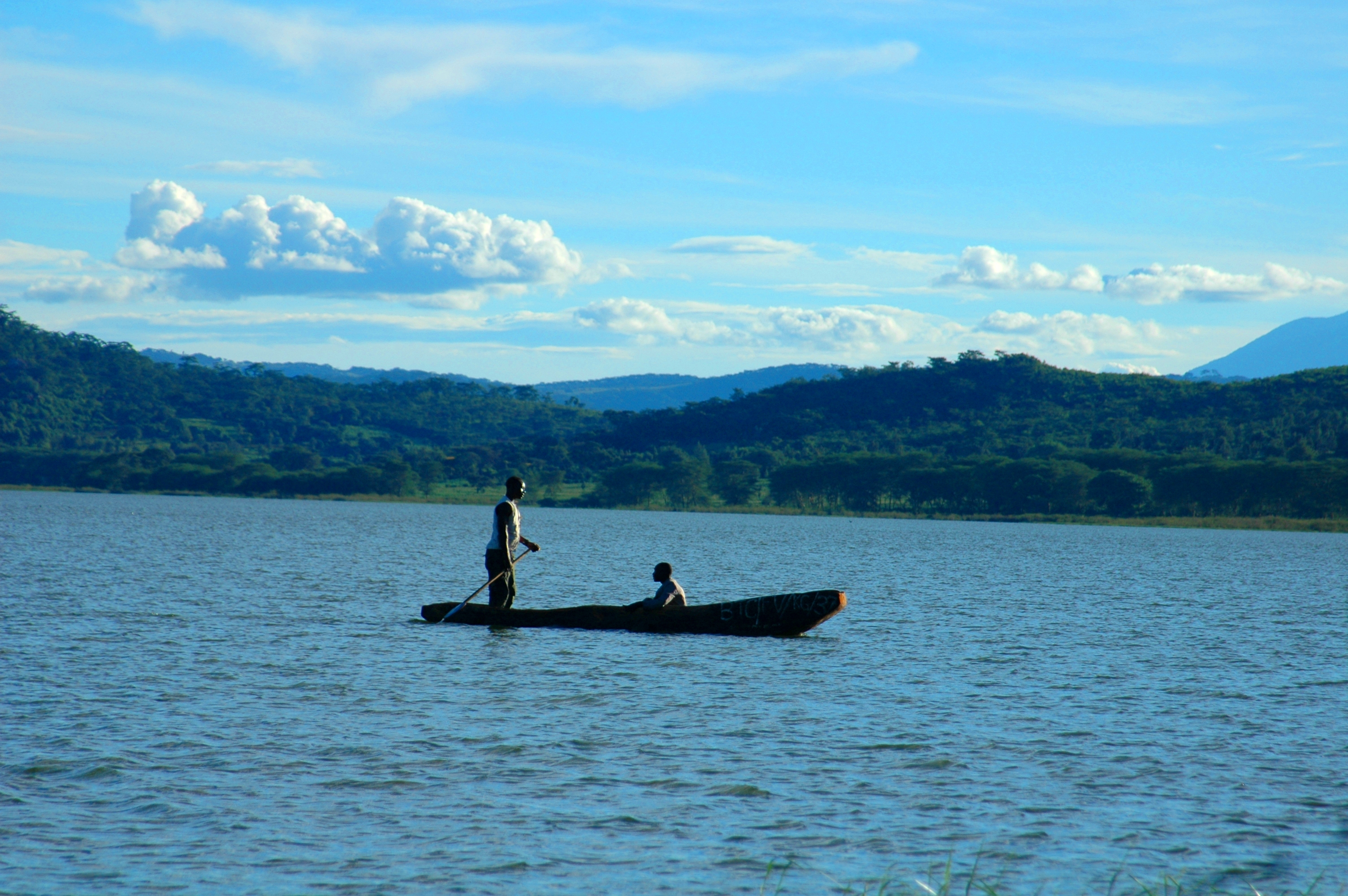 Lake Babati, Tanzania, Manyara Region